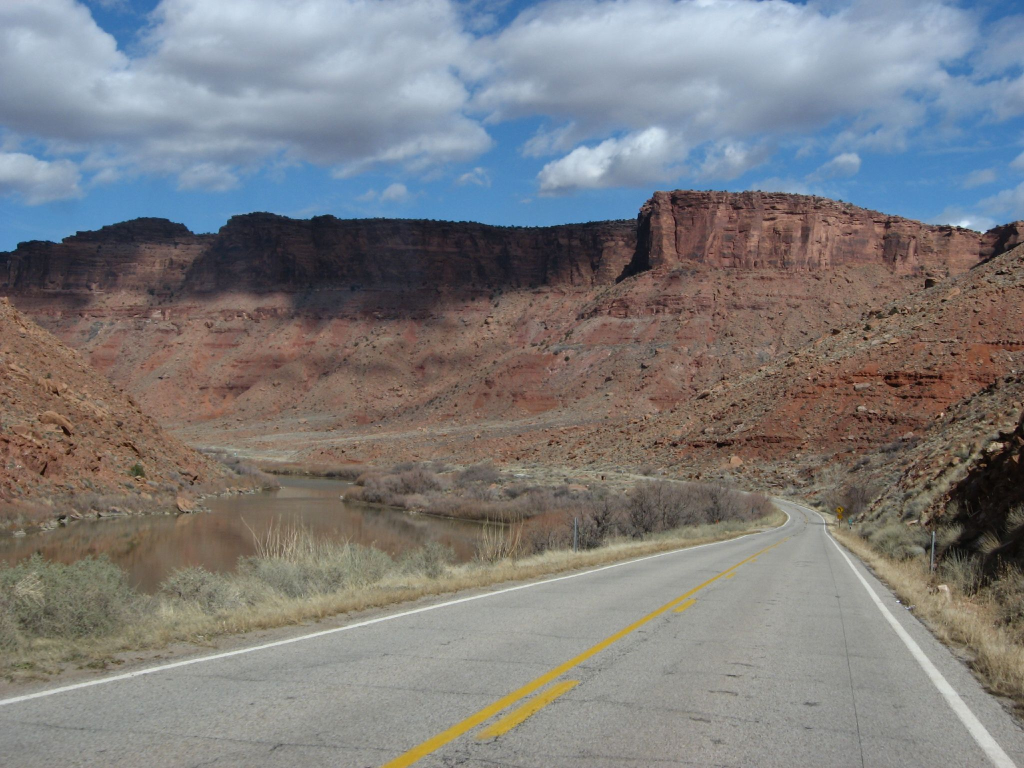 Utah State Route 128 Along Colorado River Near Moab, Utah